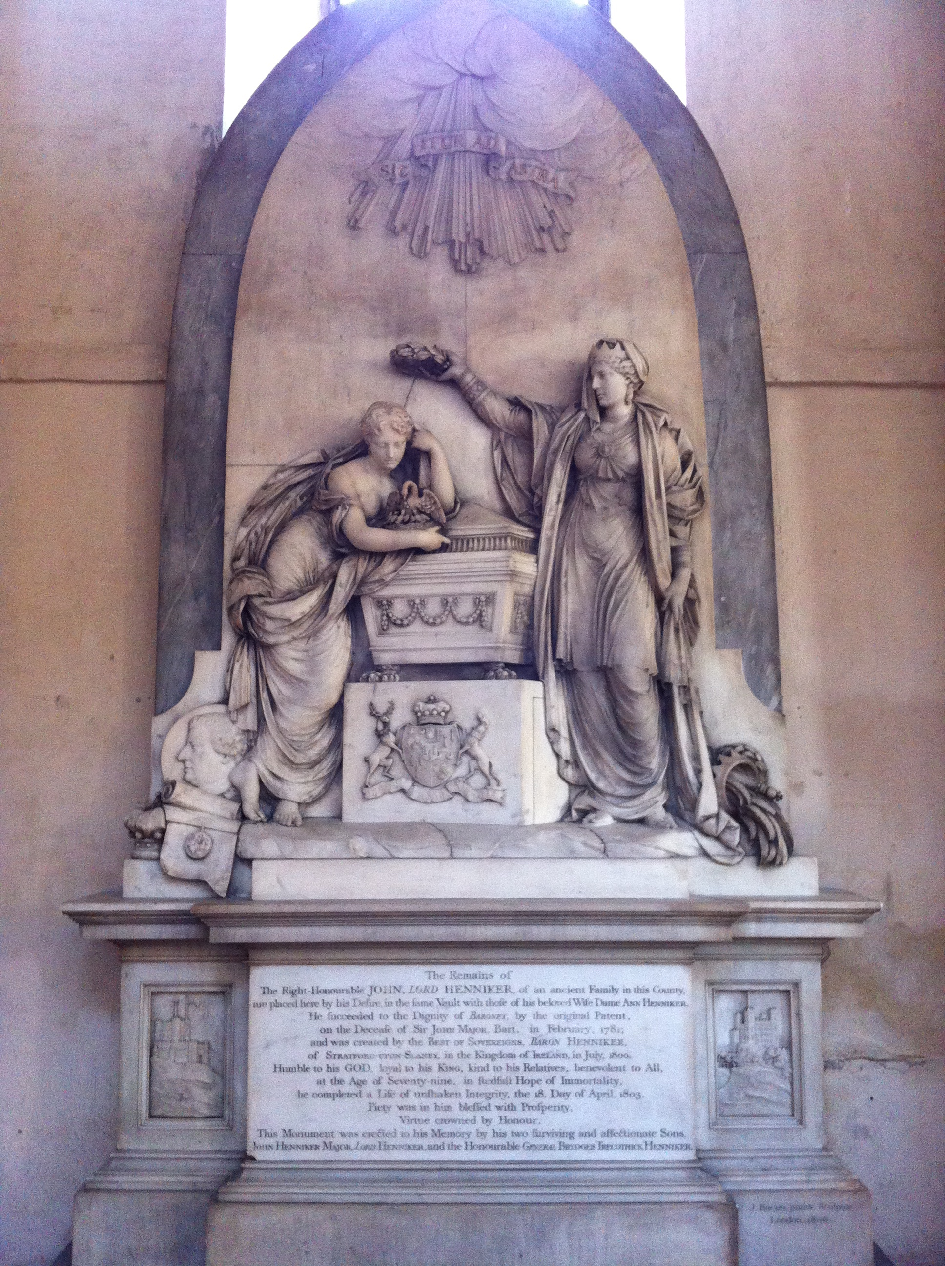 John, Lord Hennkier, died 18 April 1803 Memorial by J Bacon junior, Sculptor 1806